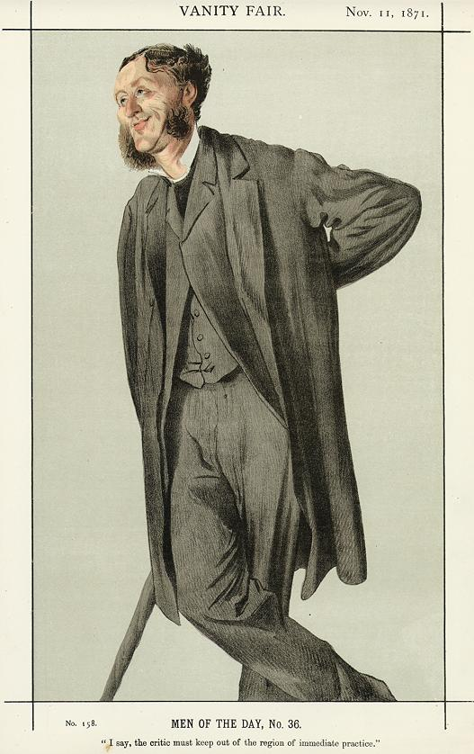 Caricature of Matthew Arnold (1822-1888). Caption read "I say, the critic must keep out of the region of immediate practice".